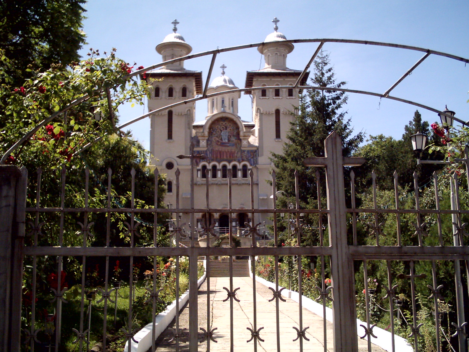 Greek-Catholic Church of the Assumption Made by Morar Tamás and Balázs Szilárd ( , ) 01